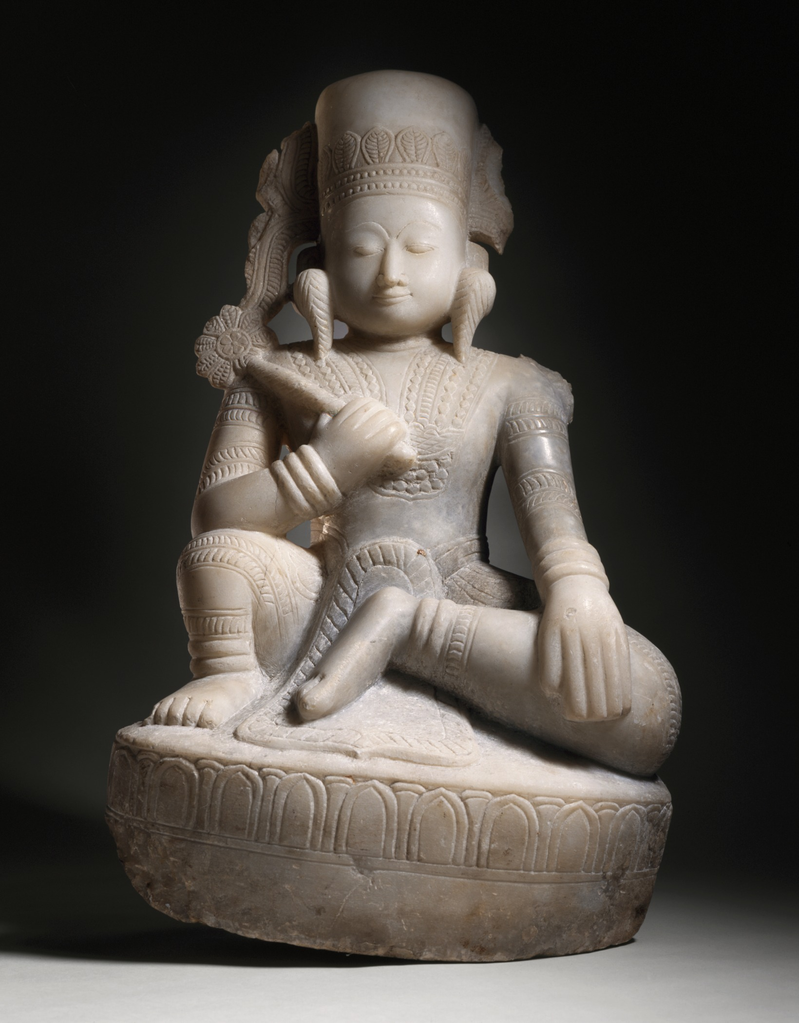 Burma (Myanmar), Mandalay, circa 18th century Sculpture White marble Gift of Louis R. Mosbrooker (AC1995.103.1) South and Southeast Asian Art